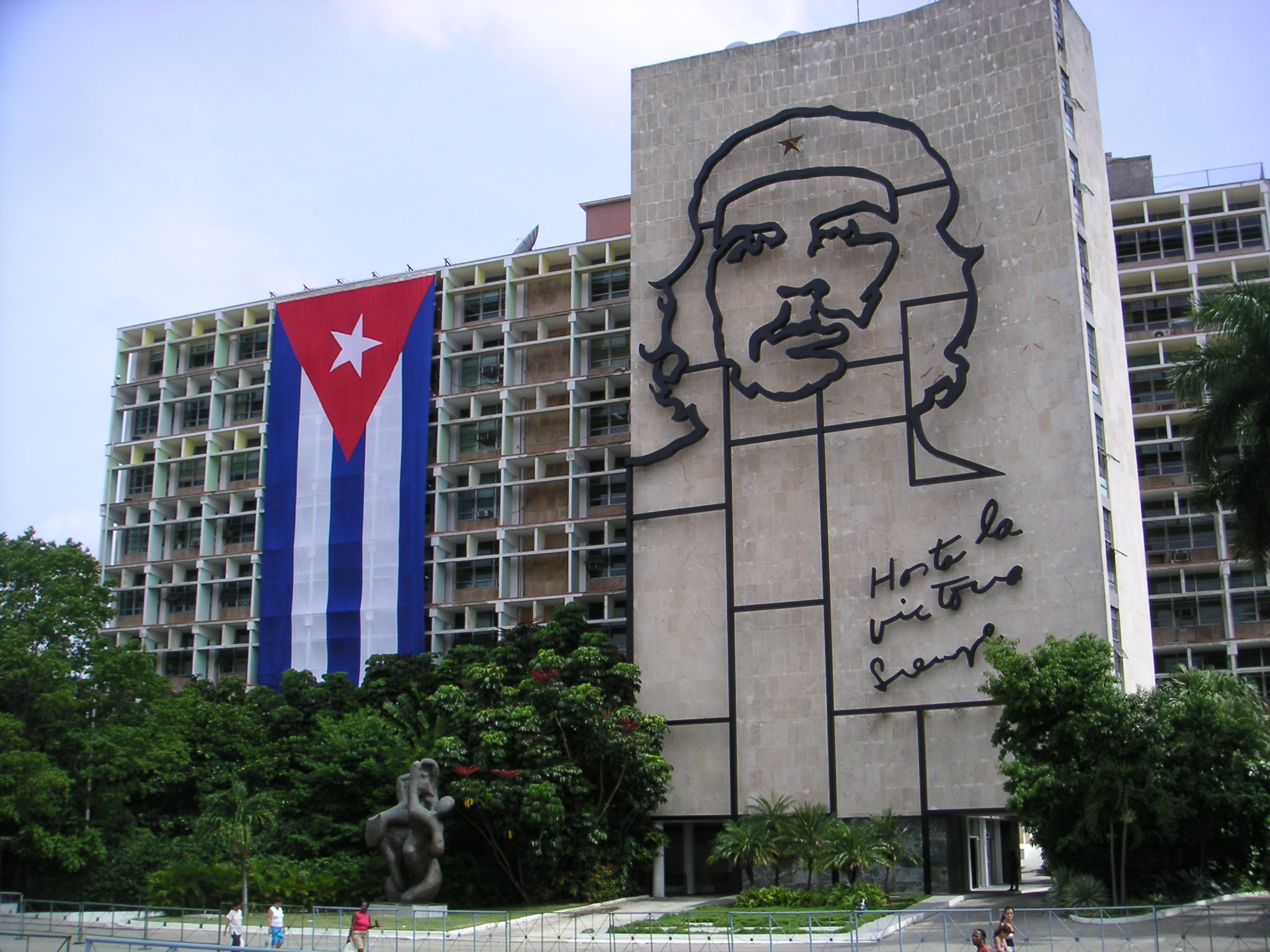 Ministry of Interior building, adorned with a steel sculpture of Che Guevara, a replica of the iconic image, originally shot in 1960, by the celebrated photographer Alberto Korda. "Hasta la victoria siempre"